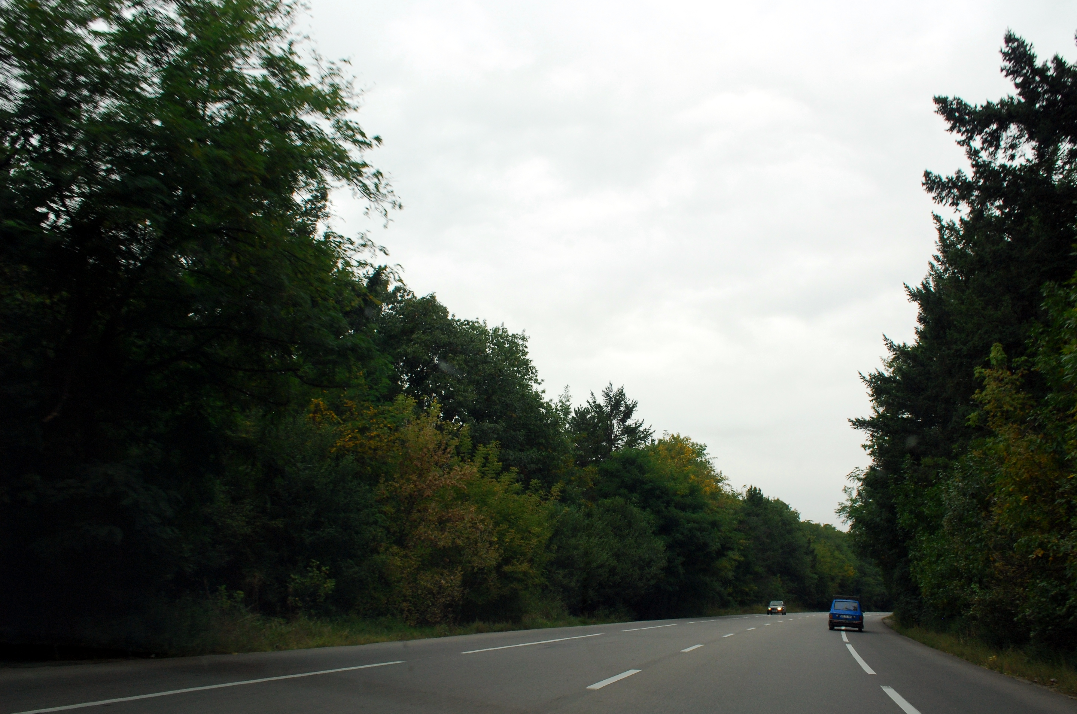 DN2 in the Sineşti forest, near Sineşti, Ialomiţa County, Romania